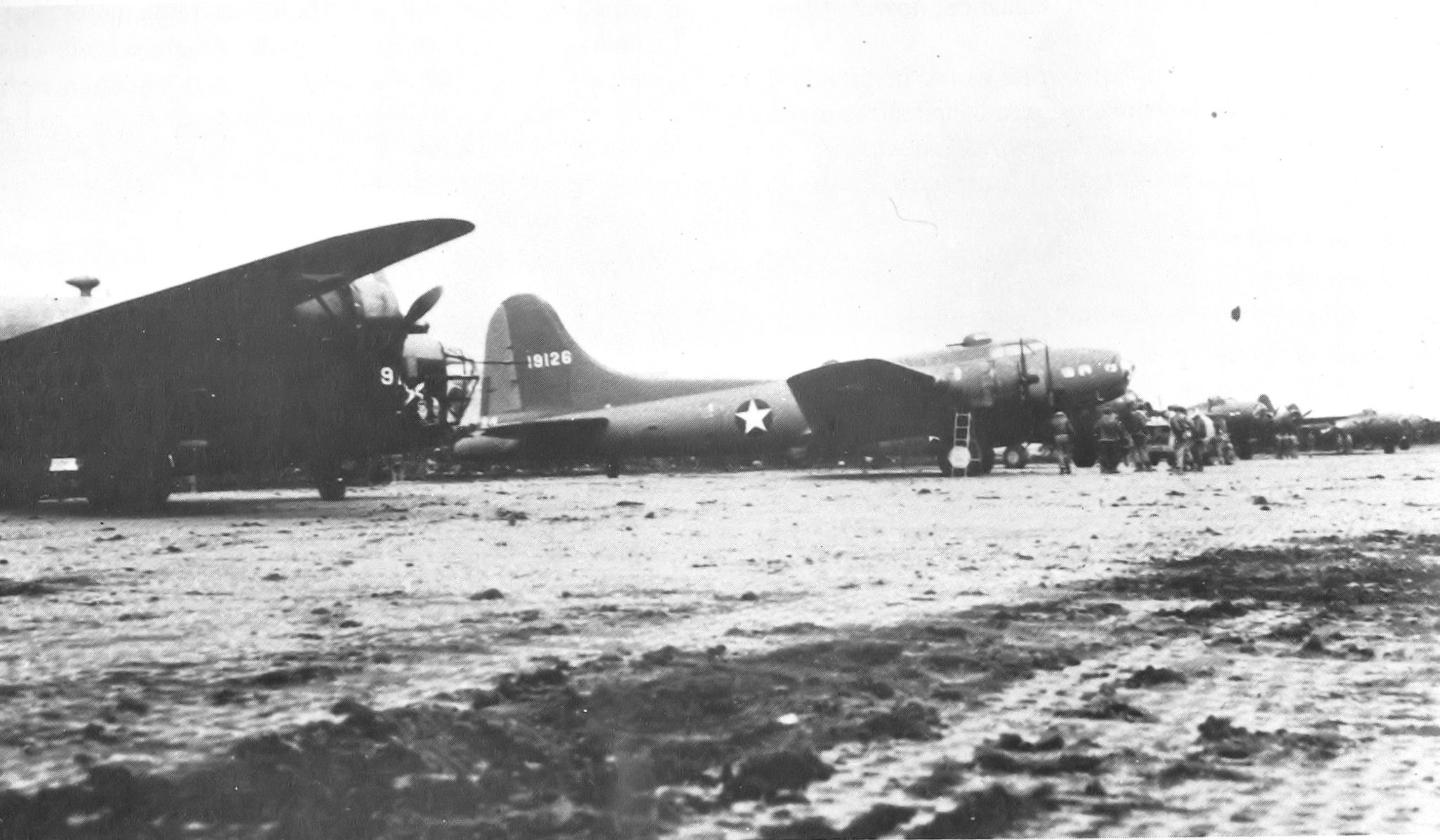 36th Bombardment Squadron LB-30 Liberator and a Boeing B-17E Fortress (41-9126) at Fort Glenn Army Air Base, Alaska, June 1942. 9126 was lost Aug 28, 1942